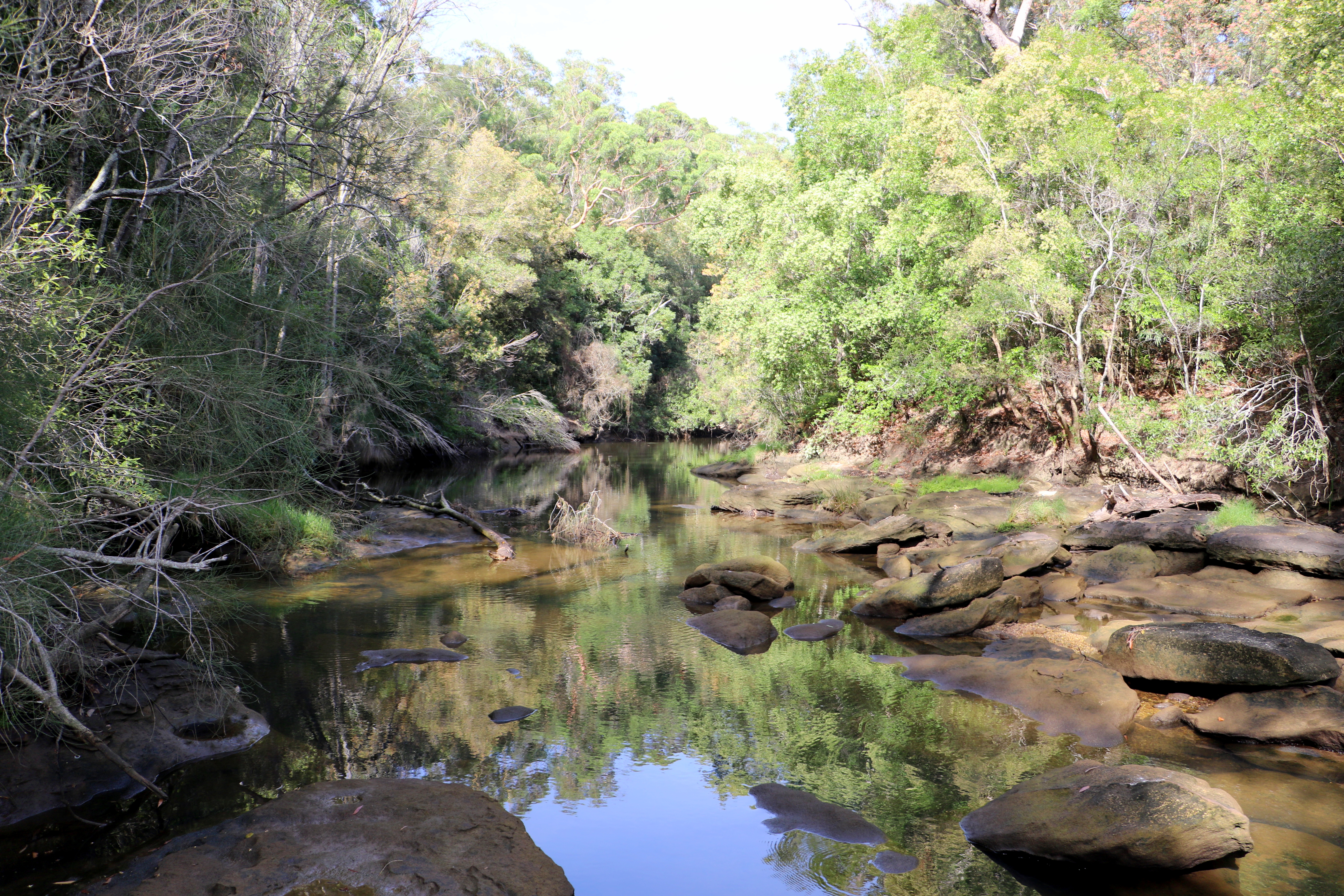 Middle Harbour Creek at Bungaroo